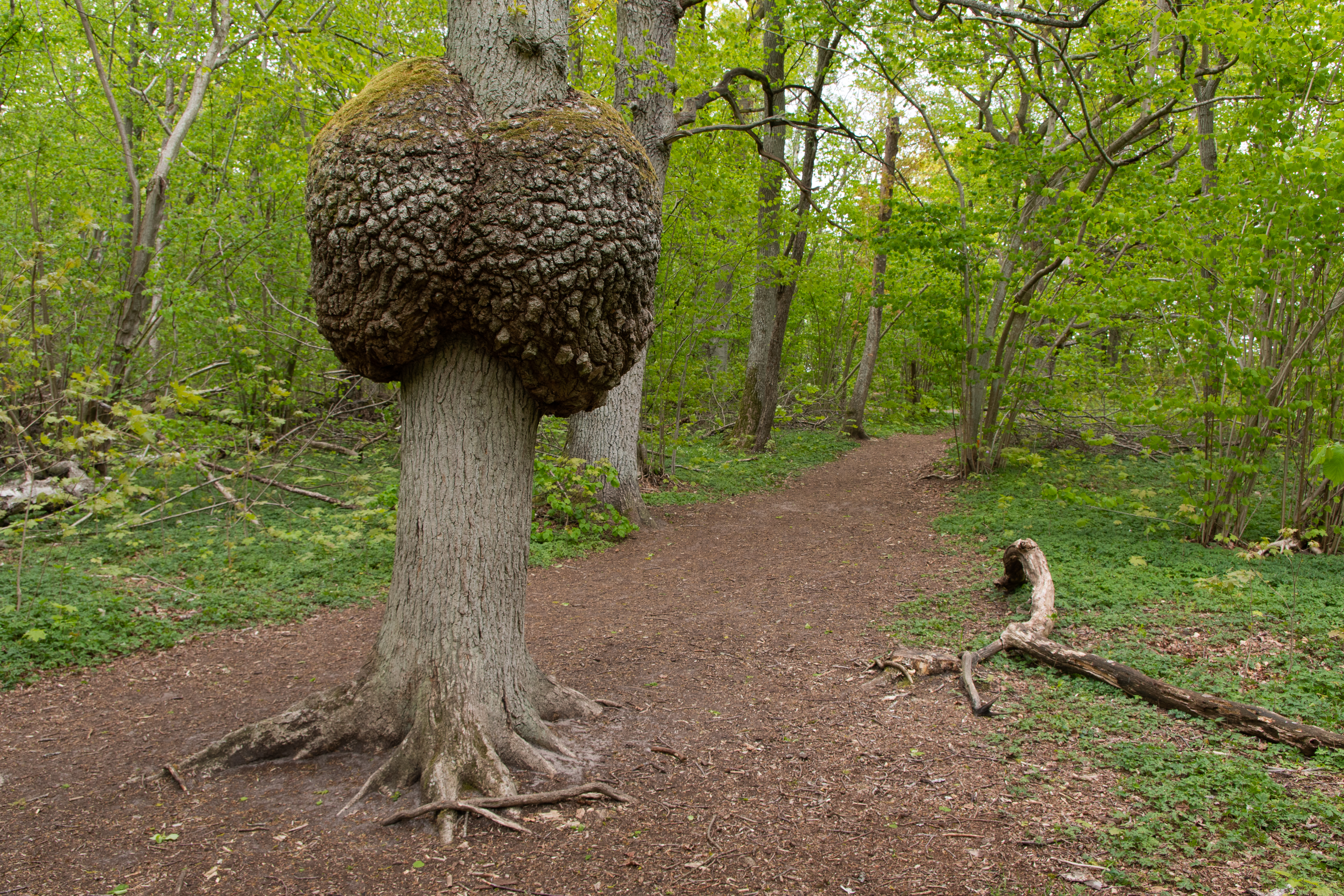 Oak with burl, Vickleby ädellövskog